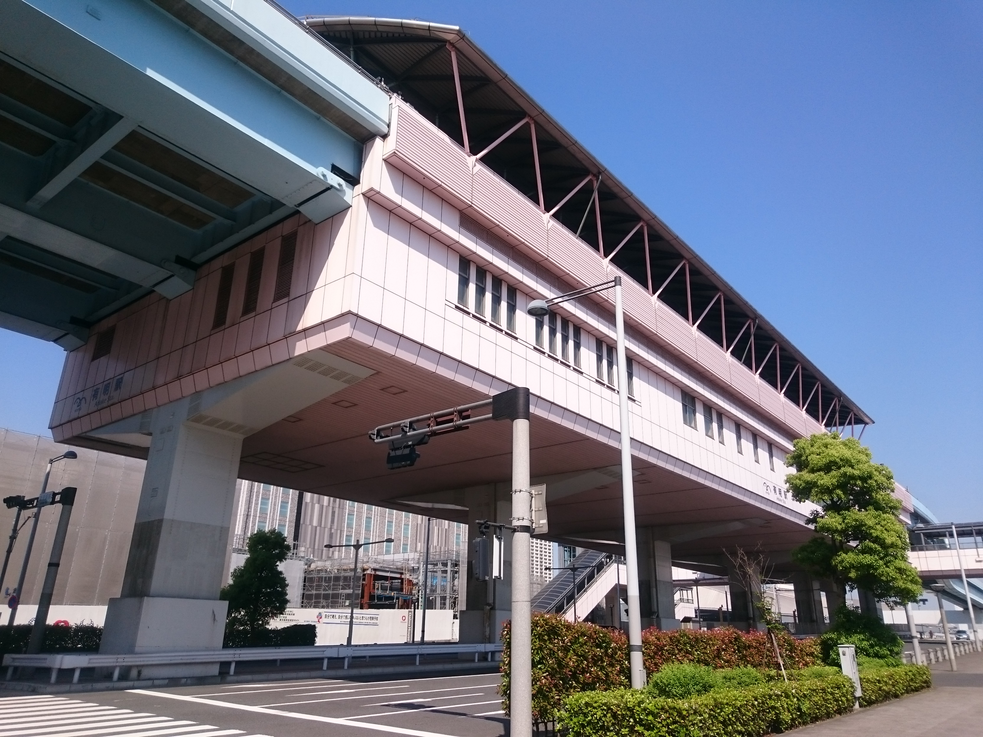 Ariake Station (有明駅), located at 3-7-5 Ariake, Koto, Tokyo, Japan